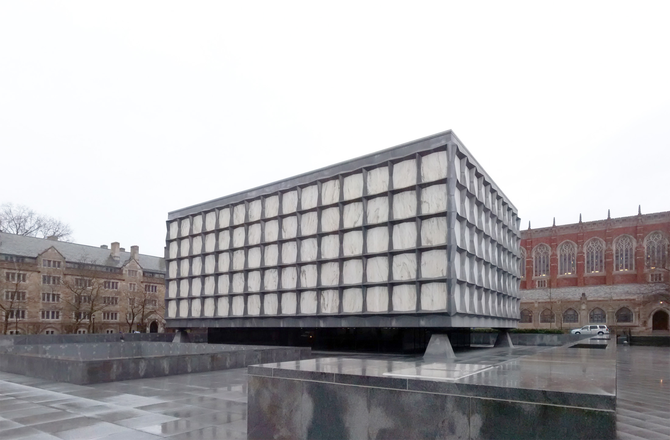 Beinecke Rare Book & Manuscript Library, Gordon Bunshaft of Skidmore, Owings & Merrill, Yale University Hewitt Quadrangle, New Haven, Connecticut, Apr. 2014